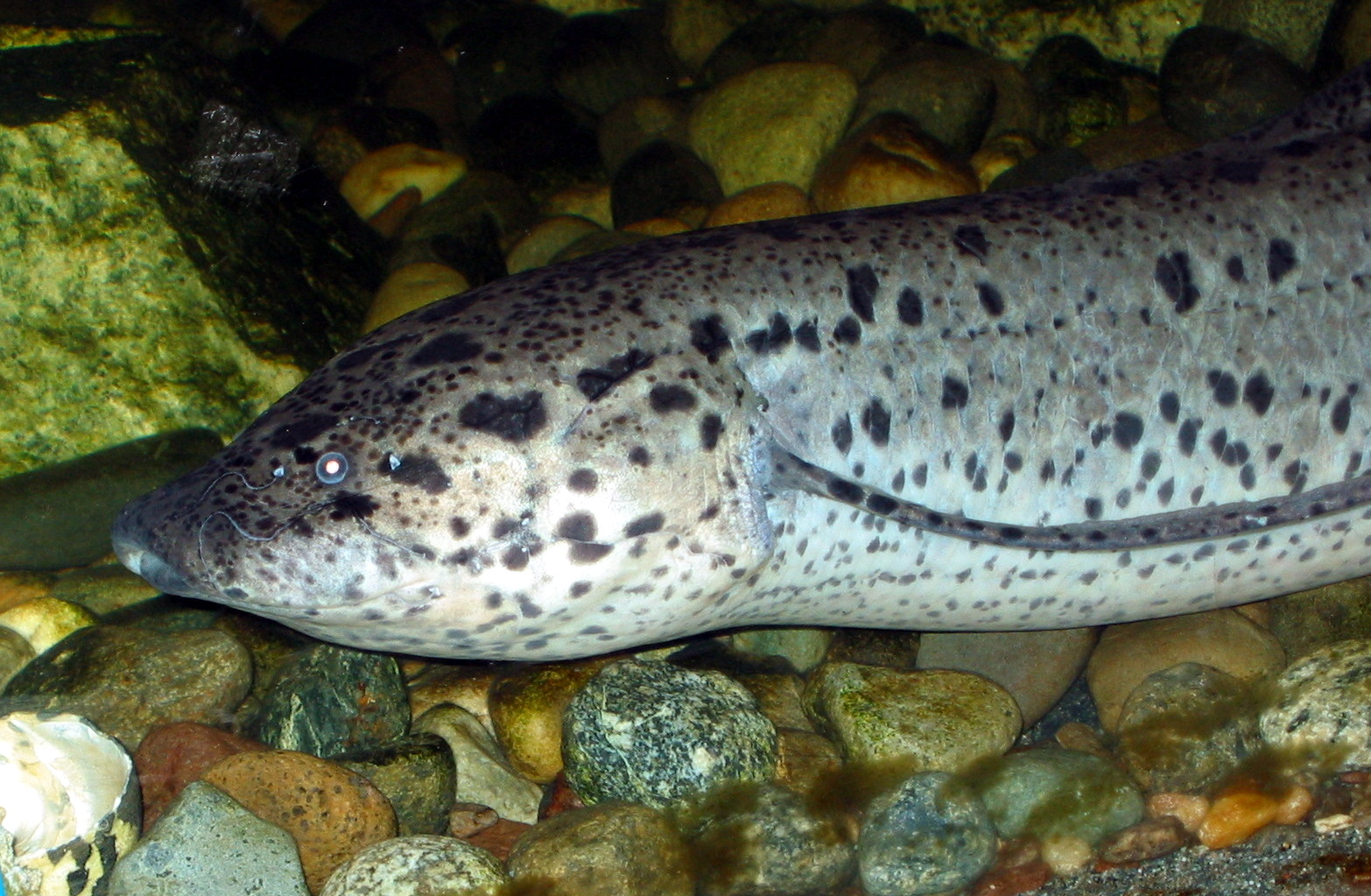 African Lungfish at Greater Vancouver Zoo.